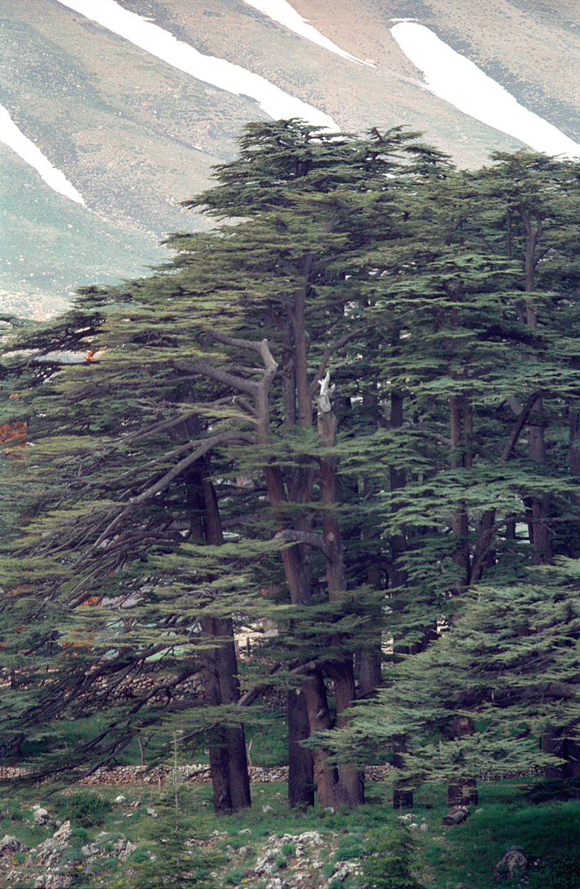 Cedrus libani var. libani — Lebanon Cedar; grove. In the Cedars of God nature preserve on Mount Lebanon, Lebanon.